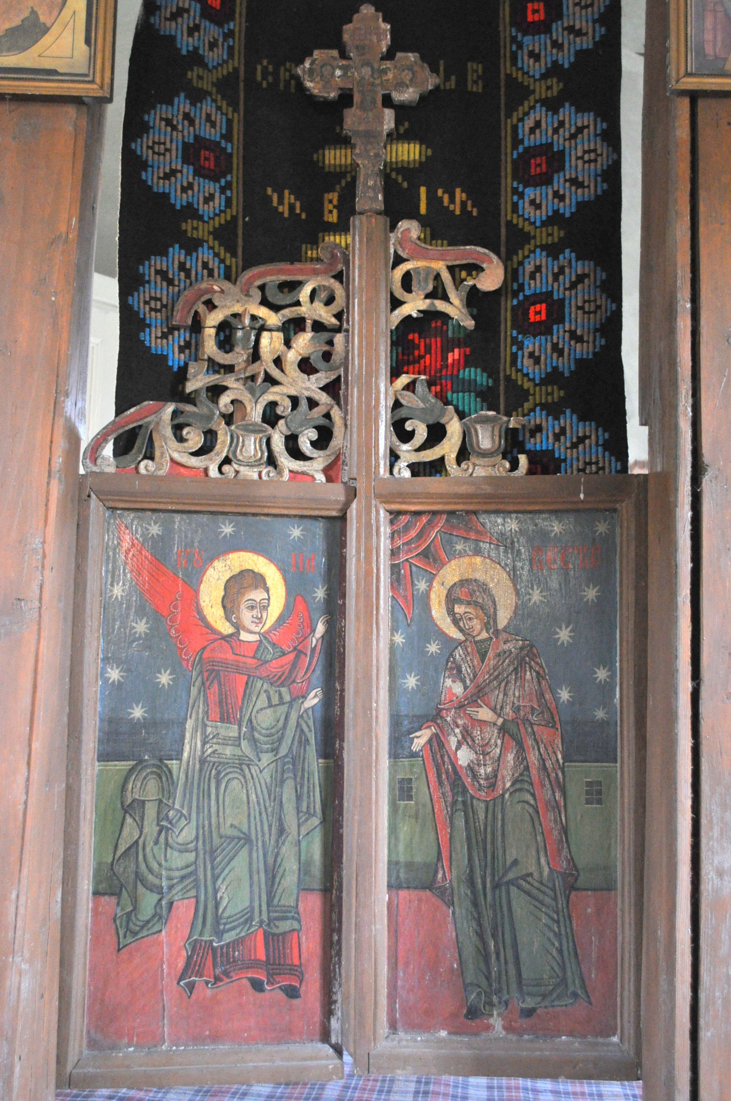 The wooden church in Săsăuș, Sibiu county, Romania